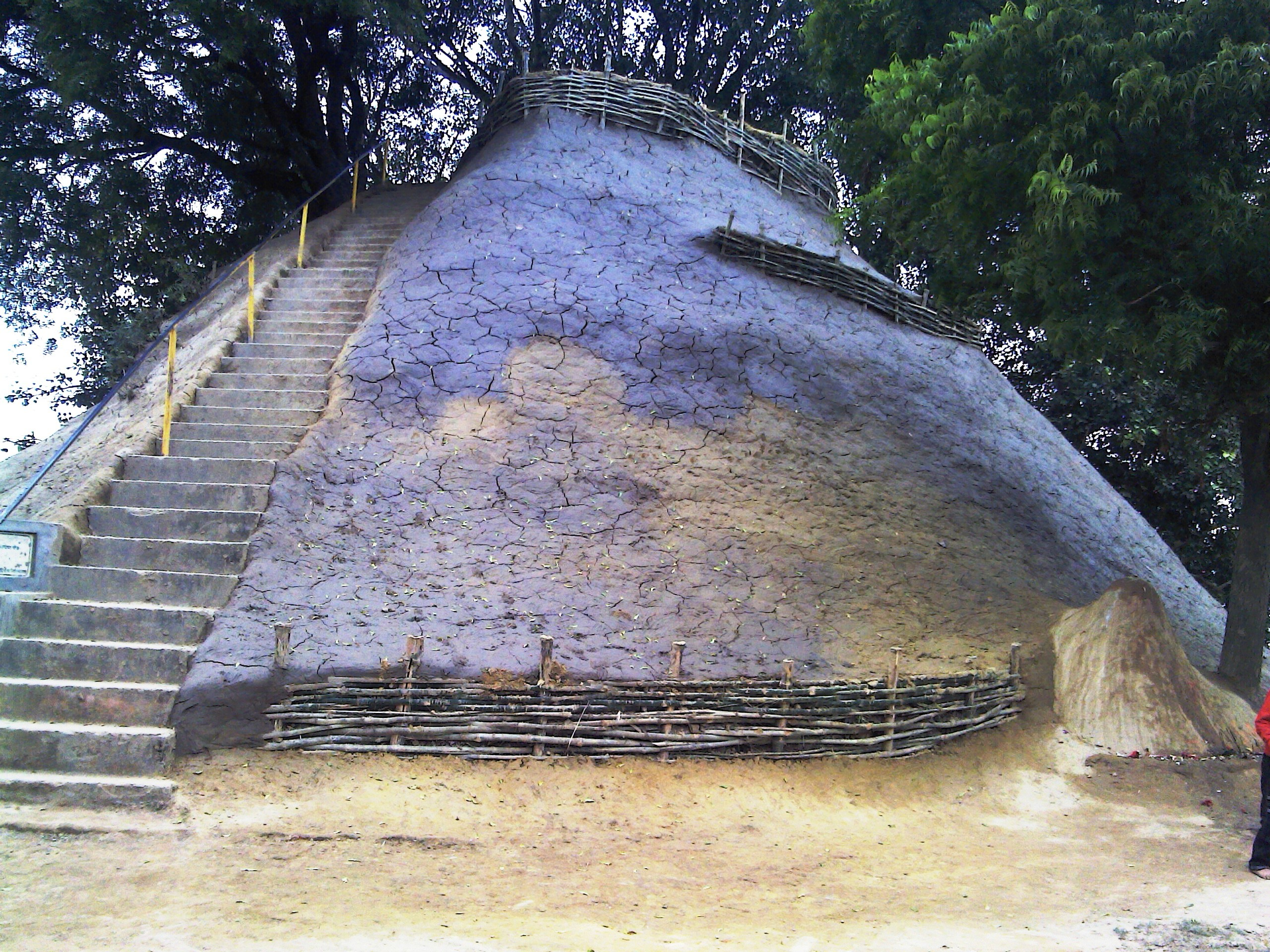 It dedicated to two 12th century historical persons, Damodara Pathak Brahm and Bhupal Pathak Braham. Against the violent suppression by a Nepalese King, they self-sacrificed by immolating themselves in ritual fire .